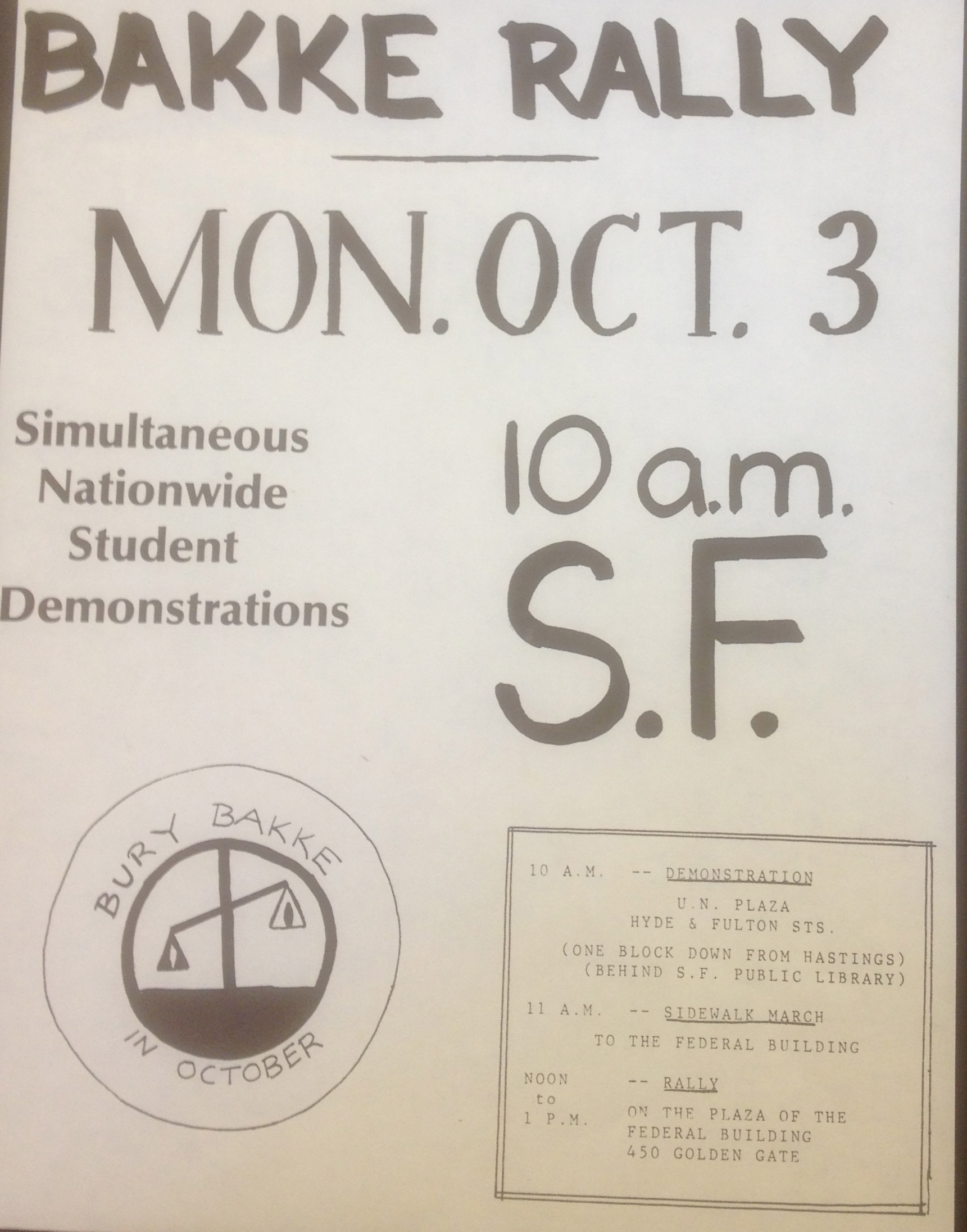 A rally poster in support of overturning the California Supreme Court's decision in Bakke v. Regents of the University of California. The other side is blank.